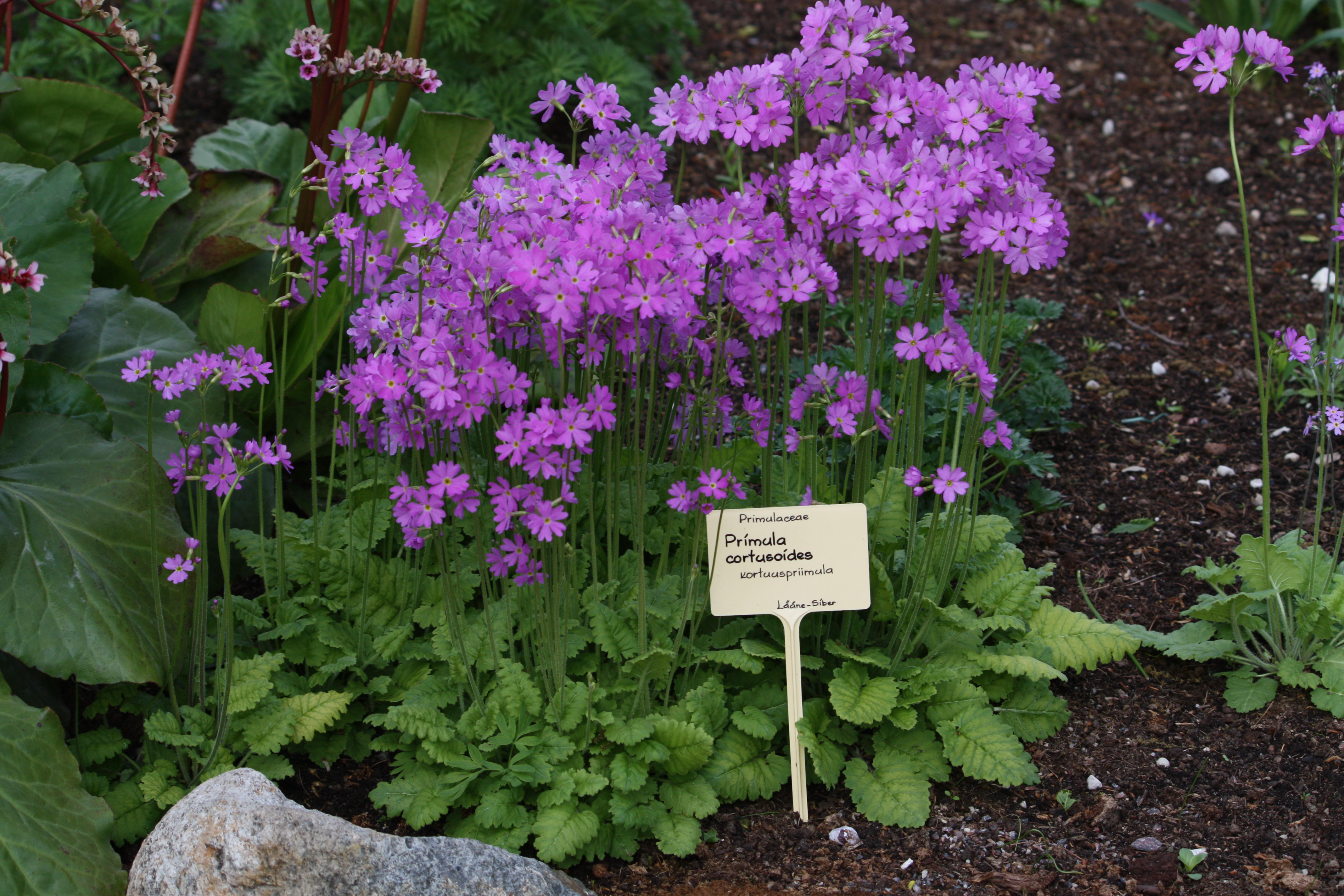 Primula cortusoides - Botanical Garden of the University of Tartu, Estonia